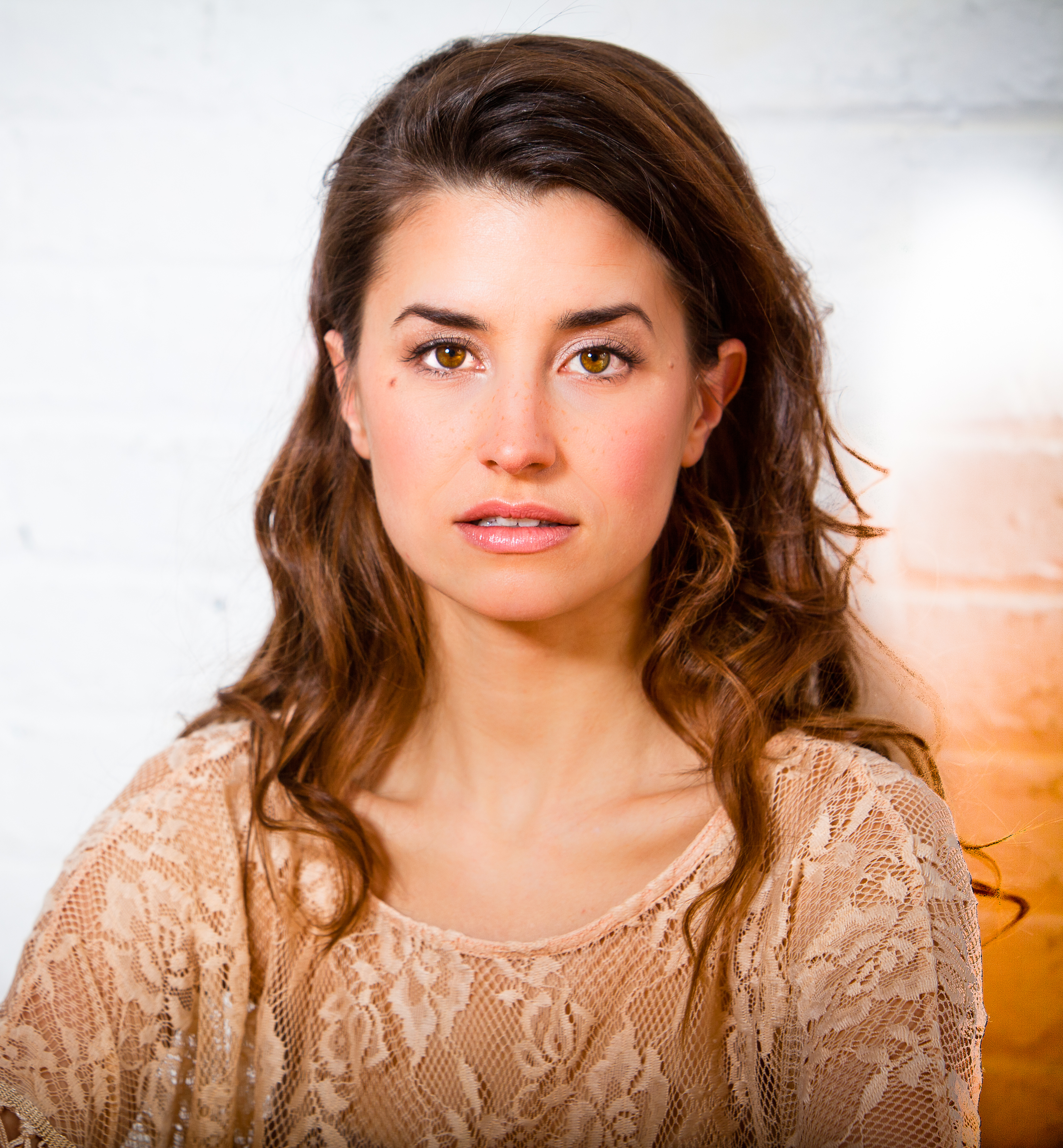 Headshot of Bryn McAuley by Robin Cimitruk